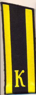 Russian rank insignia (са. 1970), here "Kursant" (OF-D) – shoulder strap (appliquéd) Army, (ground forces, SAM missile troops) everyday uniform.